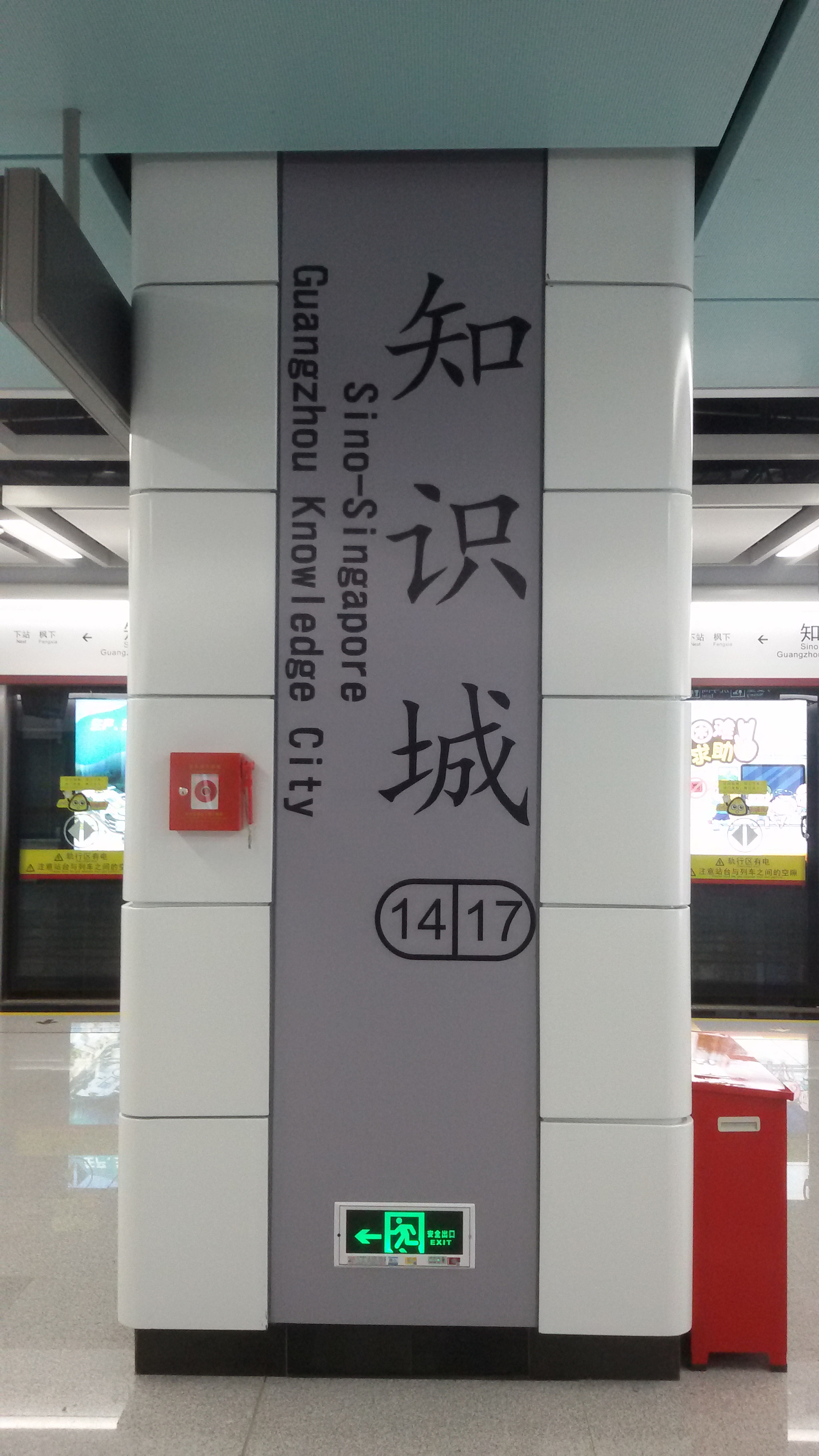 WORD on PILLAR for Sino-Singapore Guangzhou Knowledge City Station in Guangzhou Metro